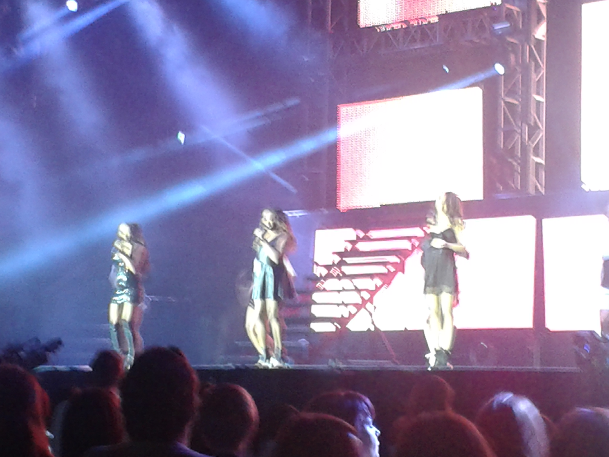 Honeyz performing live in Scotland at the SECC in Glasgow as part of The Big Reunion arena tour.